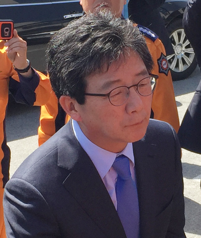 Presidential candidate Yoo Seong-min visiting the forest fire area of Gangneung